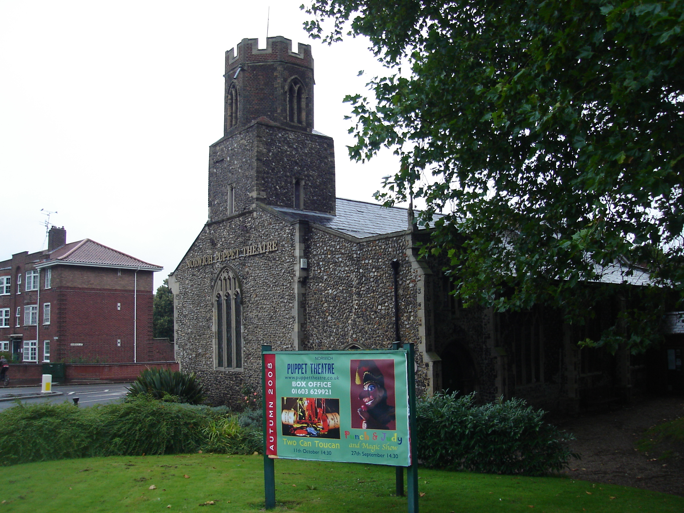 Picture of the Norwich Puppet Theatre